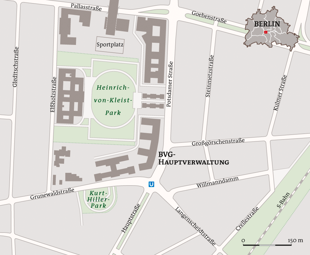 Map of the surroundings of the former building of the BVG-Hauptverwaltung in Berlin, near U-Bahn station Kleistpark. The map shows the BVG-Hauptverwaltung itself (dark), the Kleistpark to the west, some notable buildings lining the Kleistpark, and the streets and railway close by.